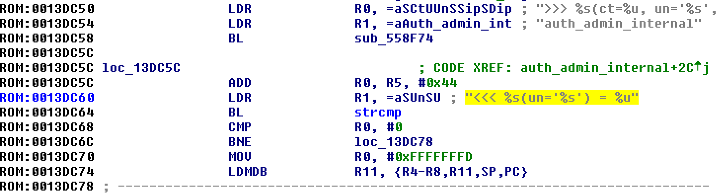 Juniper networks backdoor admin password hidden in firmware code, for the cover story.